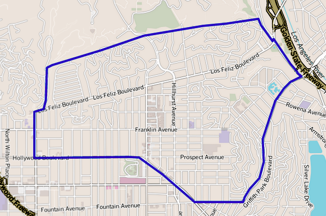 Map of Los Feliz district of Los Angeles, California. as delineated by the Los Angeles Times